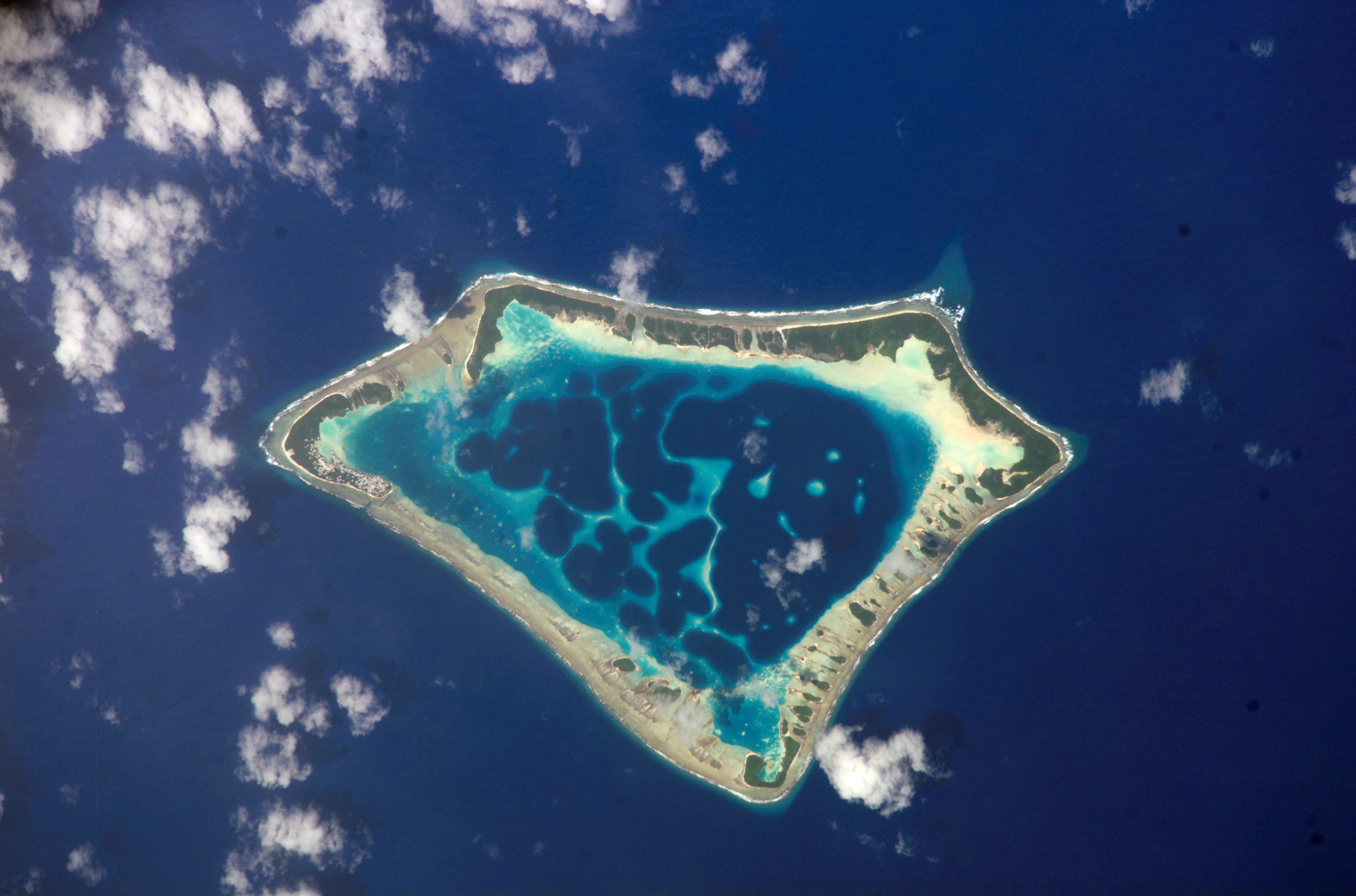 Satellite picture of the Atafu atoll in Tokelau.